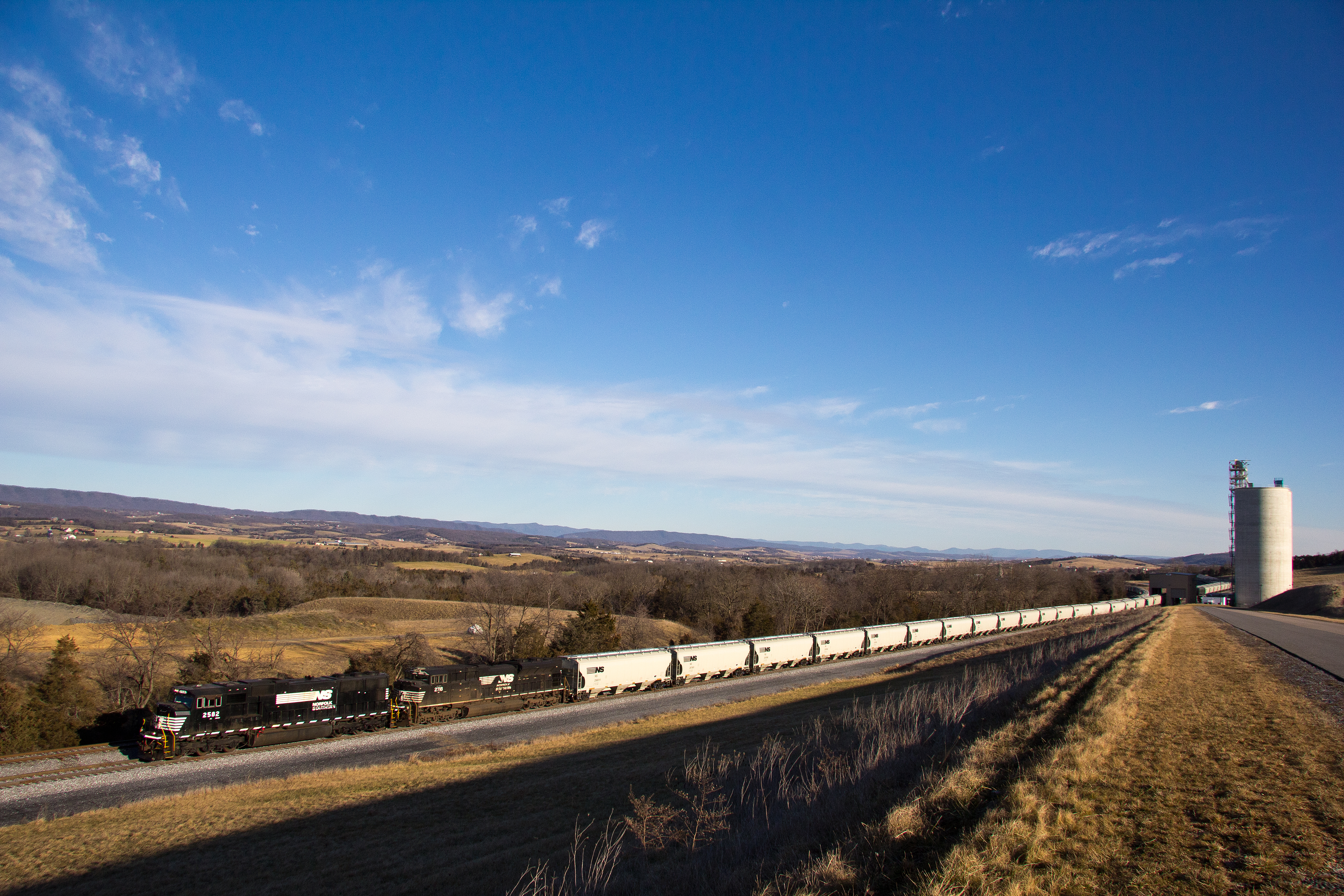 Two SD70M engines are on the rear of NS 44T as it moves a grain train to its destination in Linville, VA. The SD 70's were on the point until the train reached Harrisonburg where the train was turned on the wye.